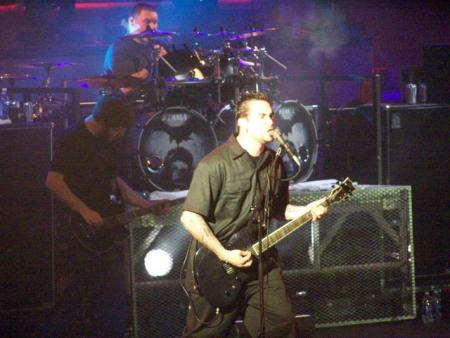 John LeCompt (front), Will Boyd (middle) and Rocky Gray (back) performing during an Evanescence concert.